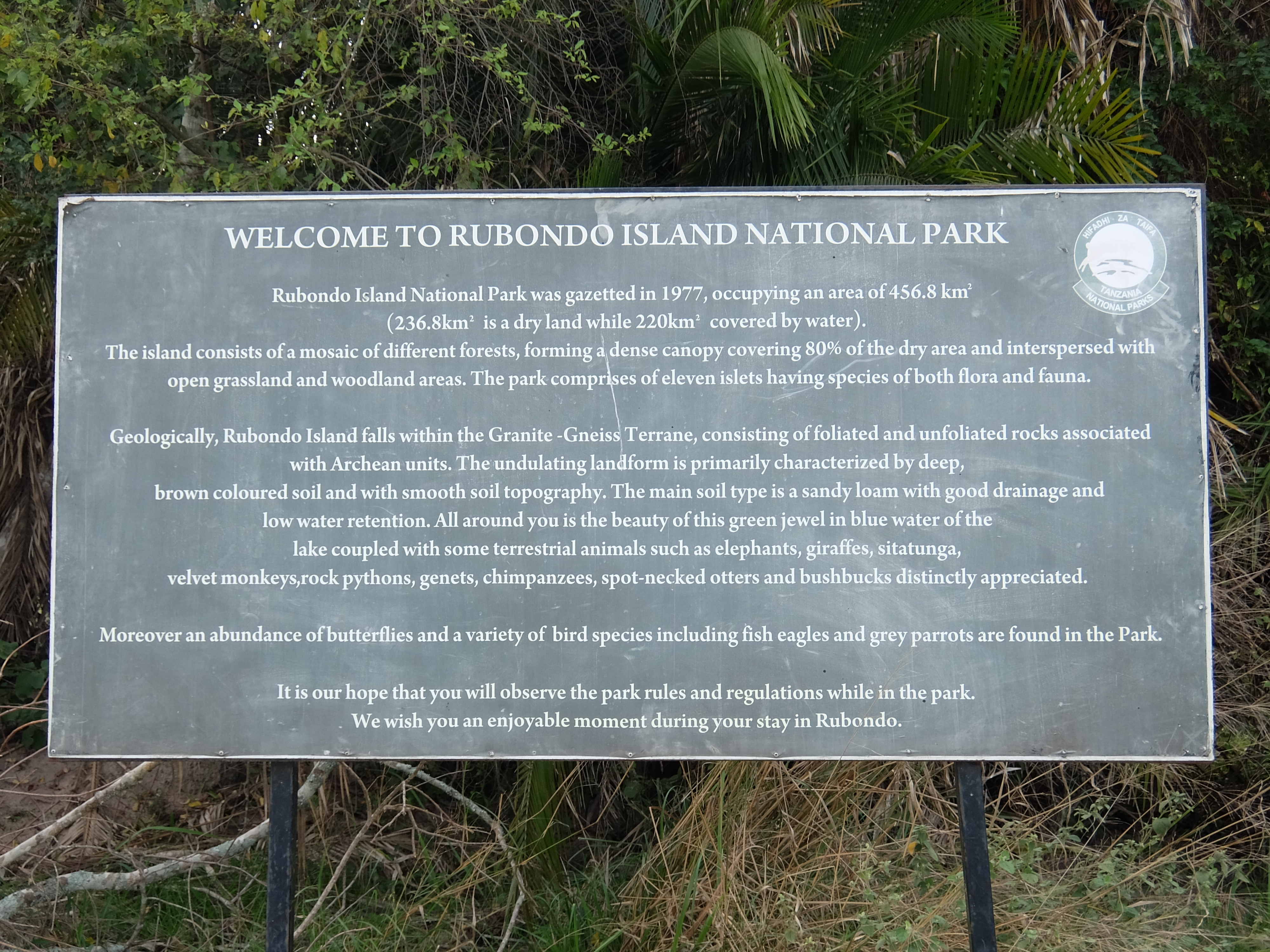 Picture of a sign post that describes Rubondo Island National Park's history and characteristics